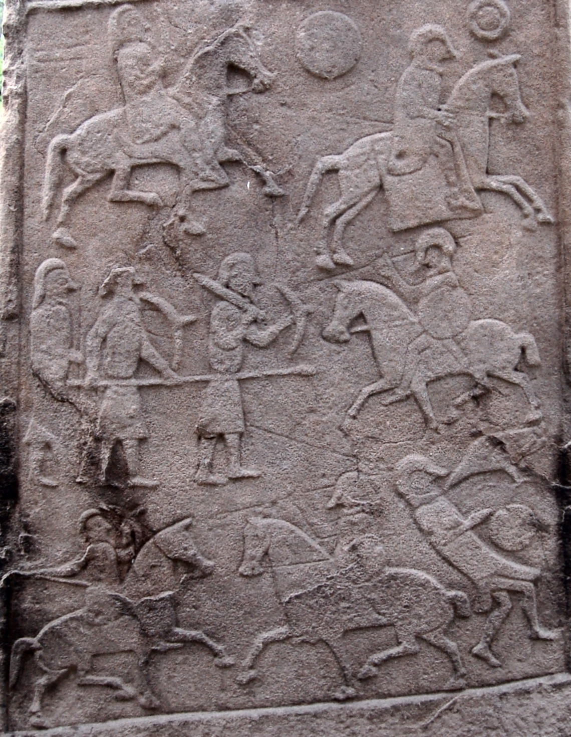 This image is a crop of a photograph of the Pictish stone in the churchyard at Aberlemno Parish Church (the stone is sometimes known as Aberlemno II). The battle scene depicted is generally accepted to be that of the Battle of Nechtansmere.